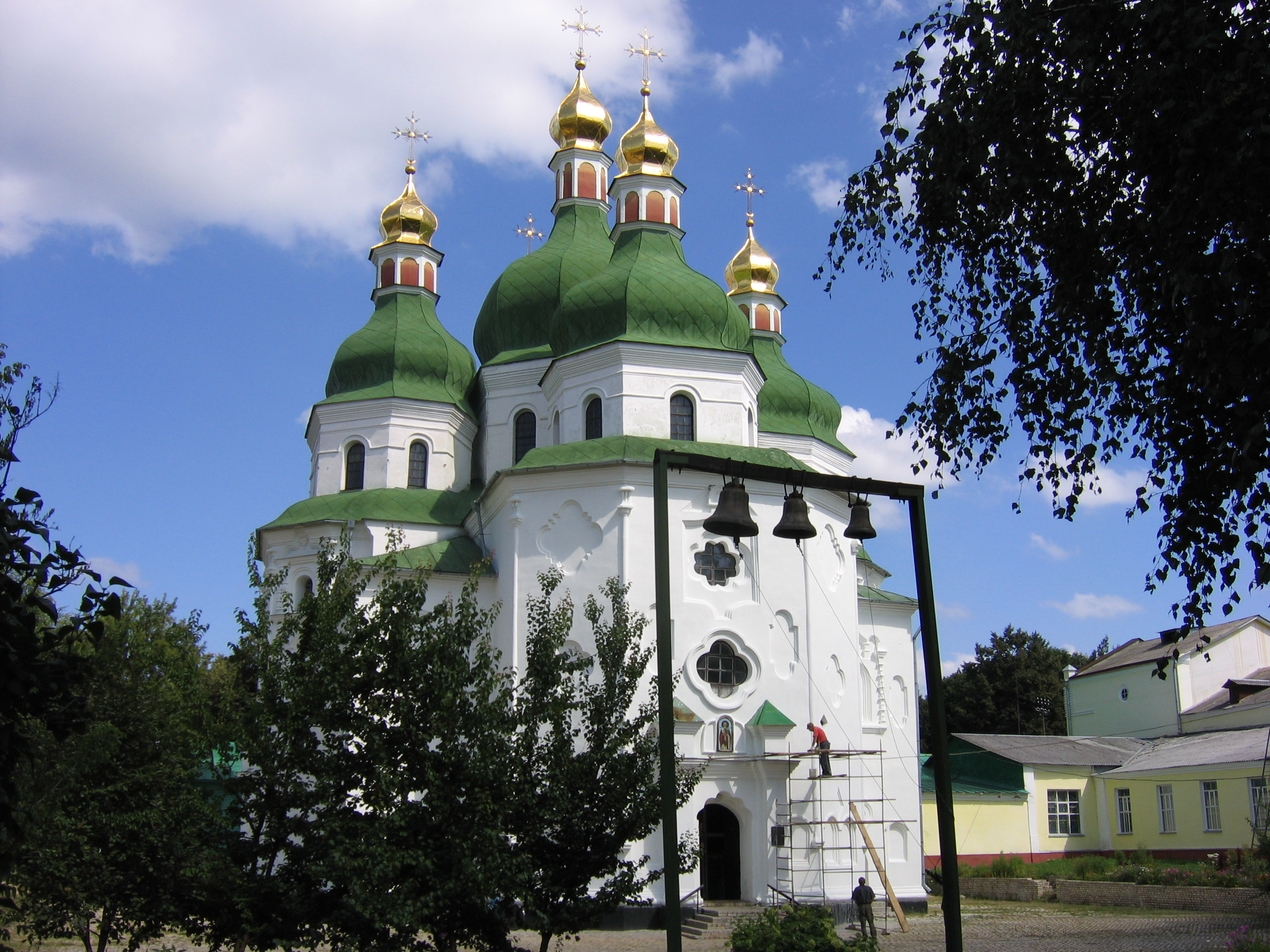 Nizhyn, Ukraine